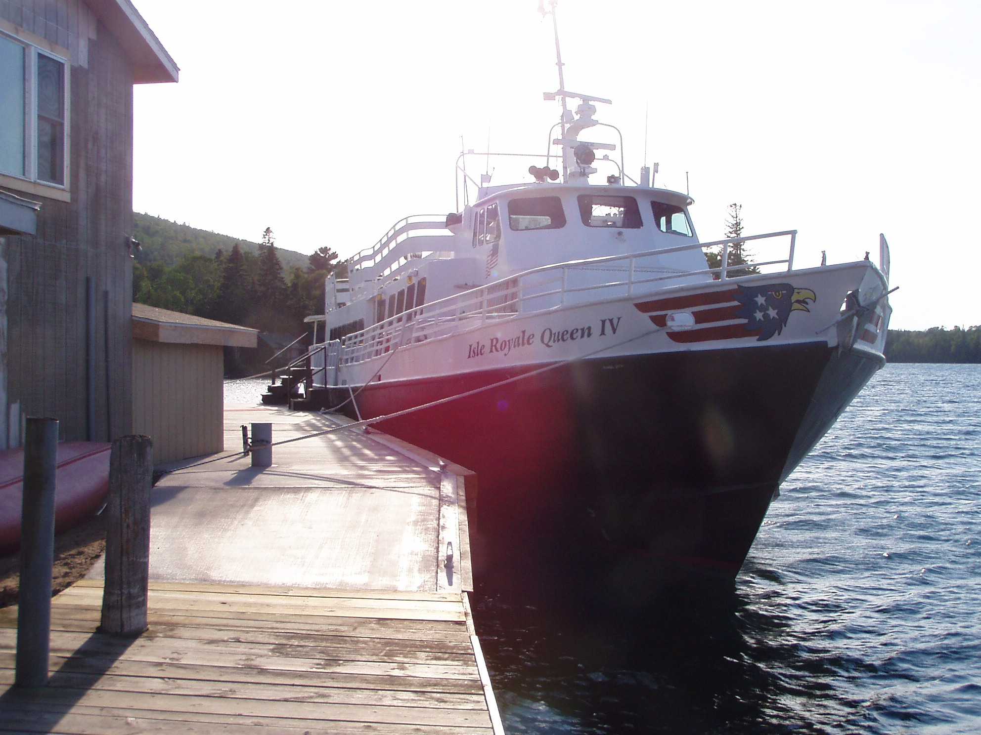 Isle Royale Queen IV berthed in Copper Harborn